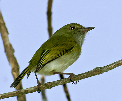 A Hangnest Tody-Tyrant in Extrema, Minas Gerais, Brazil.